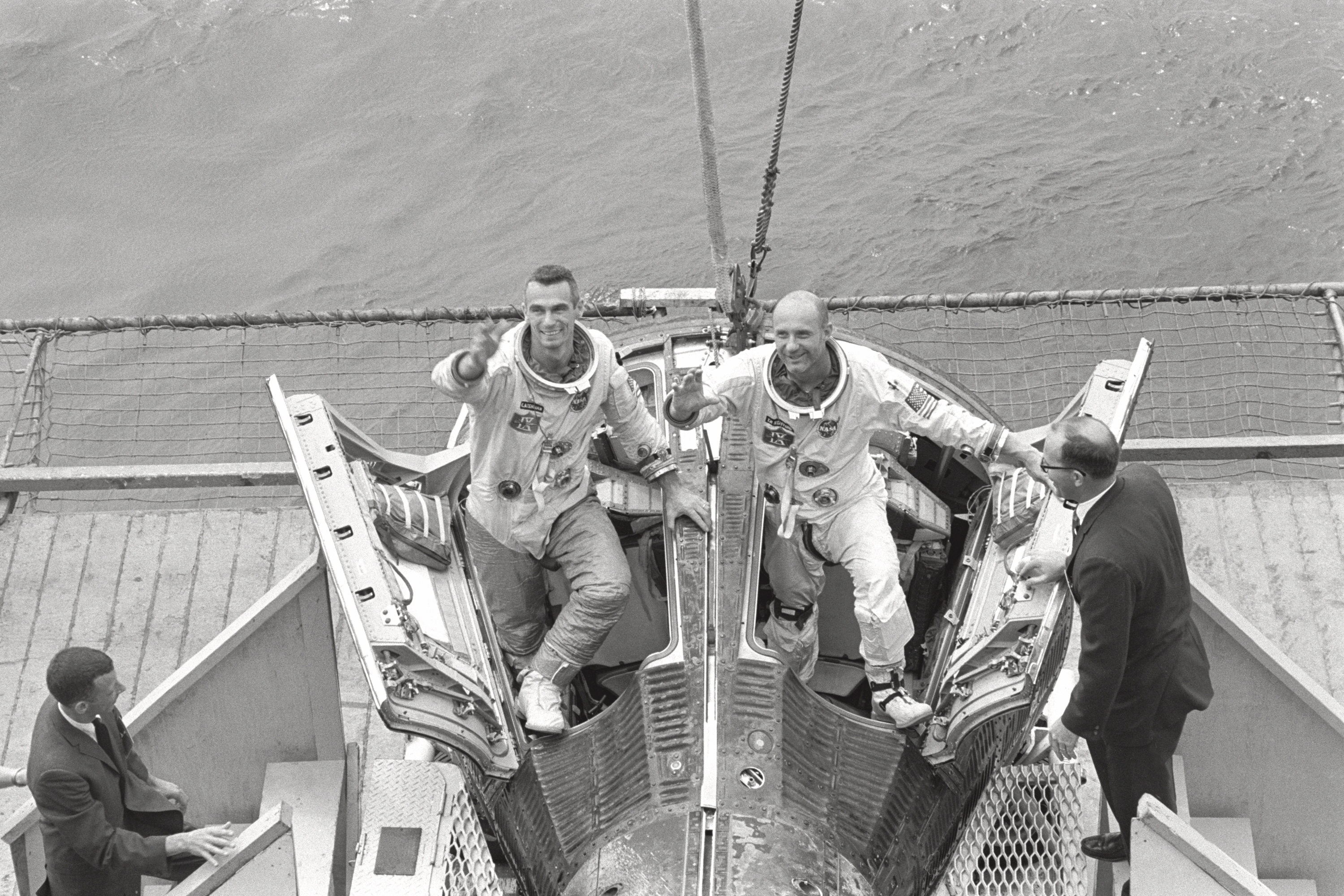 Astronauts Eugene Cernan (left), and Thomas Stafford receive a warm welcome as they arrive aboard the prime recovery ship, the aircraft carrier U.S.S. Wasp.